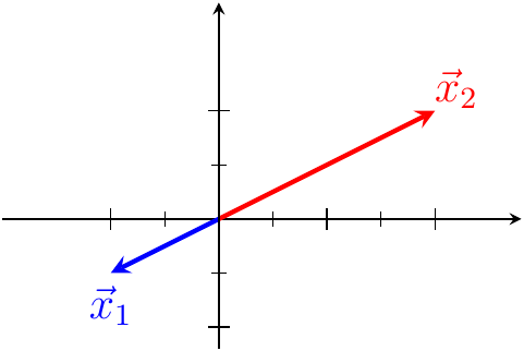 Two linearly dependent vectors in 2D.